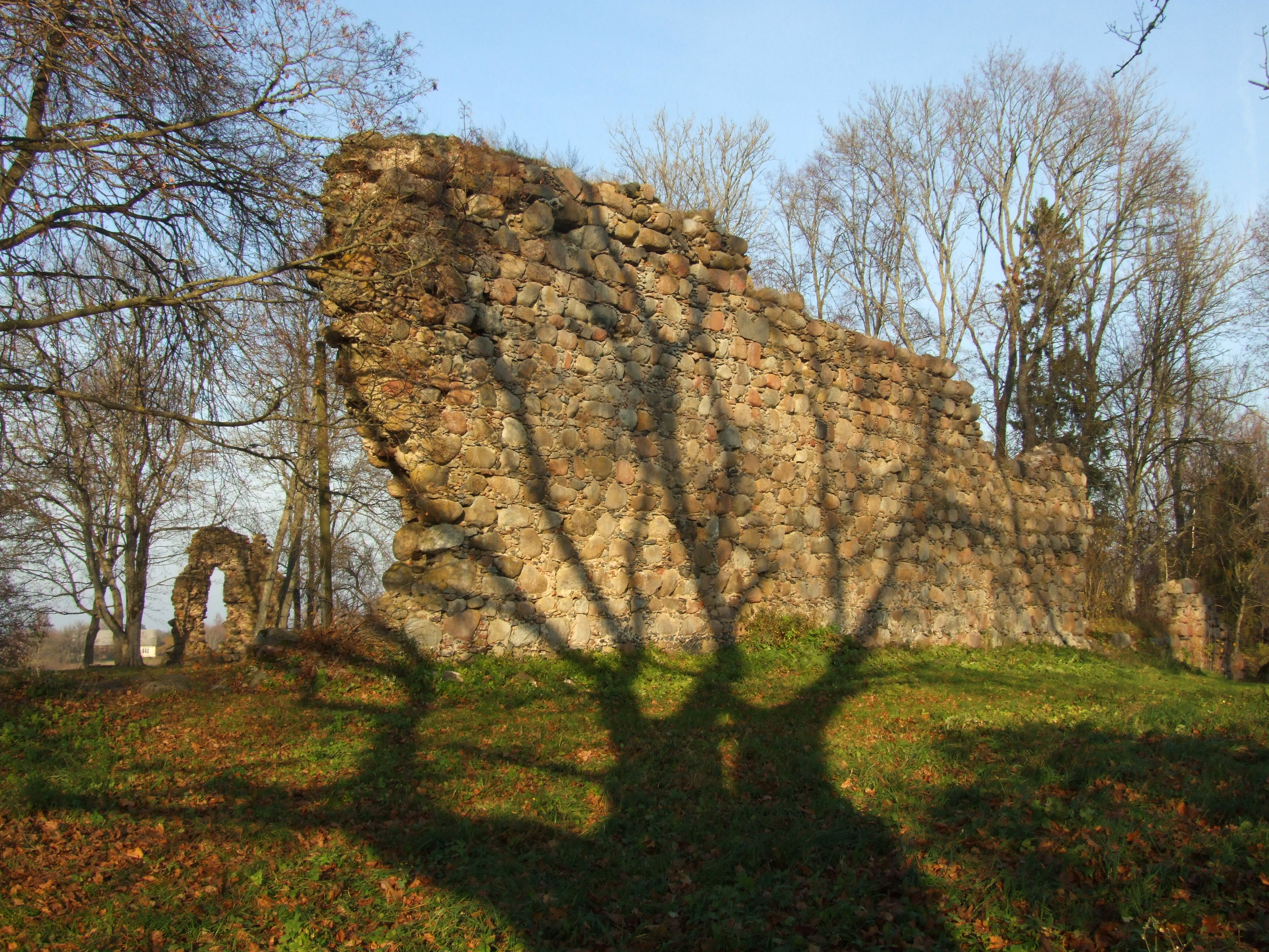 Durbe Castle ruinsLatviešu: Durbes pilsdrupas